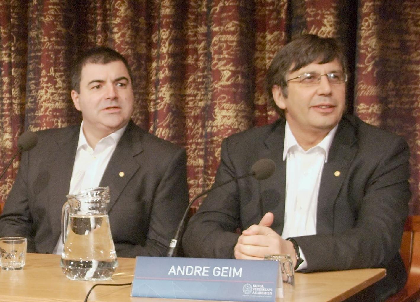 Nobel Prize 2010, press conference with the laureates of the Nobel prizes in chemistry and physics and the memorial prize in economic sciences at the KVA.